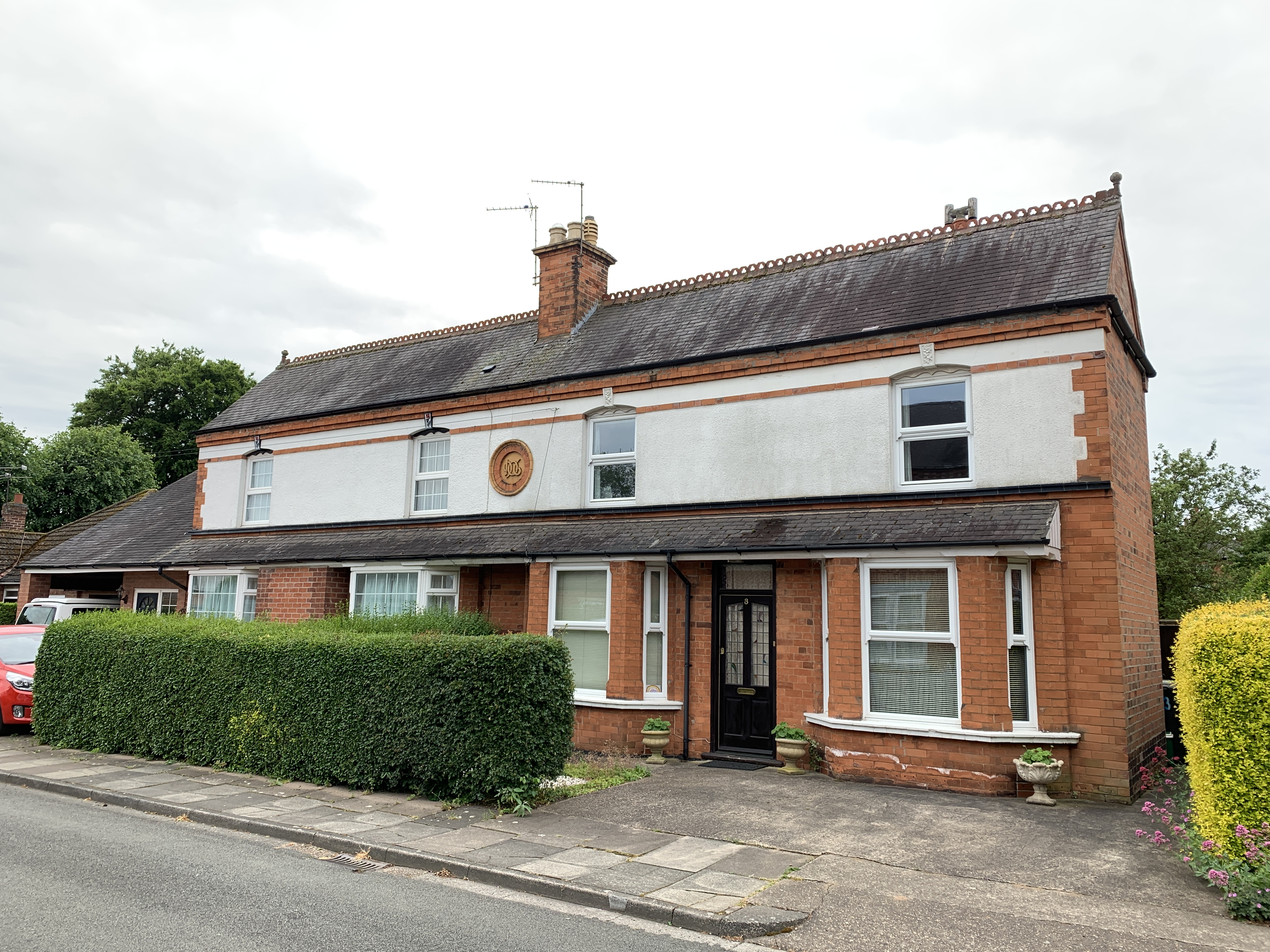 1-3 Hampden Grove, Beeston 1906 by architect and builder Thomas Woolston